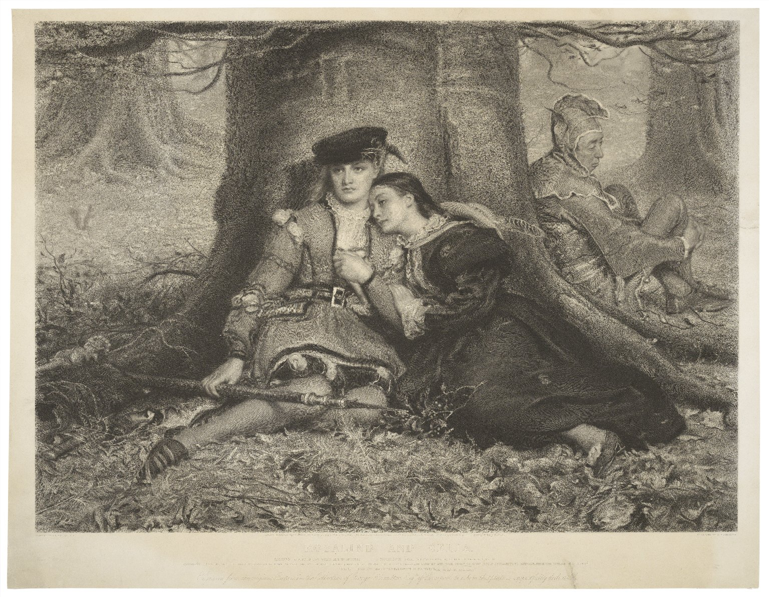 An 1870 print of Act II, Scene iv of As You Like It: Rosalind and Celia in the forest with Touchstone.